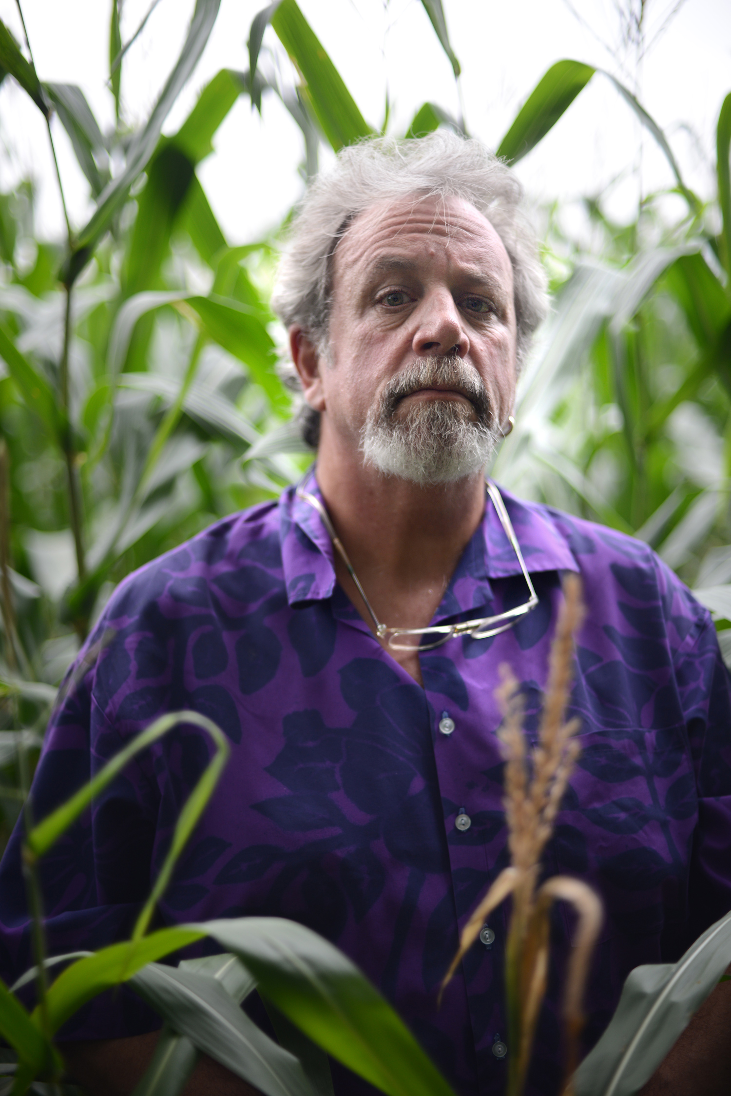 Kevin Murphy aka Tom Servo from Mystery Science Theater 3000 near Minneapolis, MN.